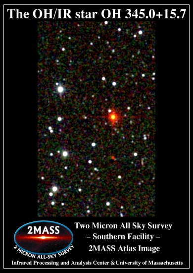 The star OH 345.0+15.7 (AFGL source GL 1822; IRAS 16029-3041) is an OH (hydroxyl) line emitter and has no optical counterpart. It is likely a late M-type star with a very dense dusty circumstellar envelope at a distance of about 6 kpc (19600 light years) from us. It is losing its mass at a rate of 1.4 x 10-4 solar masses per year, implying that it is in a superwind phase at the tip of the asymptotic giant branch (Persi et al. 1990, A&A, 237, 153). The wind is moving out from the star at about 13 km/sec. Persi et al. in 1985 June found a K magnitude of 6.82 for the star (the 2MASS Ks magnitude is 6.87 ± 0.02; the 2MASS color is J-Ks=8.72). The OH/IR star is likely nearing the end of its life. The red "stars" trailing to the south in decreasing brightness are ghost artifacts of the bright OH/IR star.